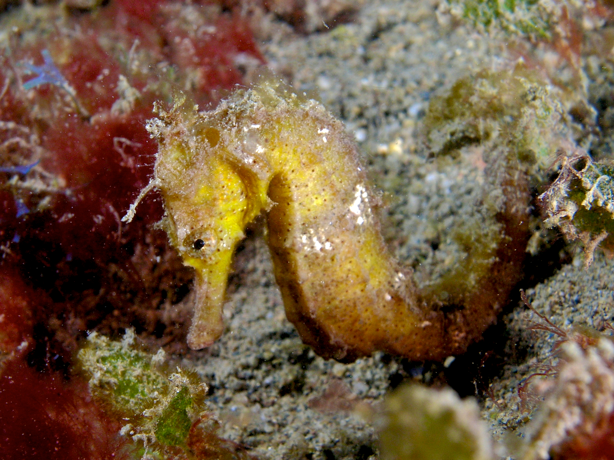 Hippocampus kuda (Estuary seahorse) - yellow